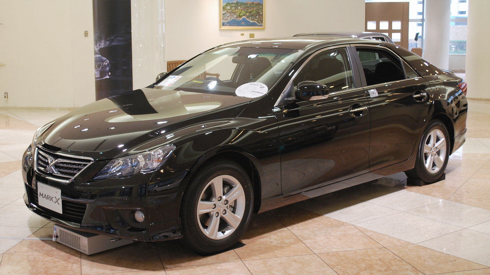 2nd Generation Toyota Mark X Sports type (2009/10 -)